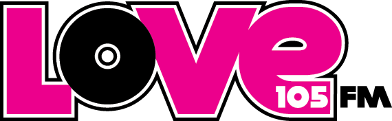 Former logo of the radio stations WGVX, WRXP and WGVZ used from 7 May 2007 to 30 March 2014.